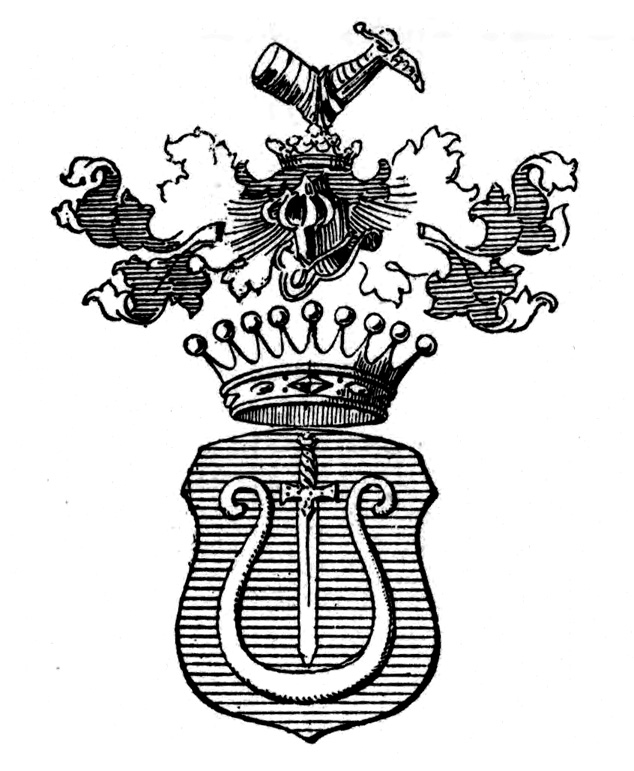 coat of arms